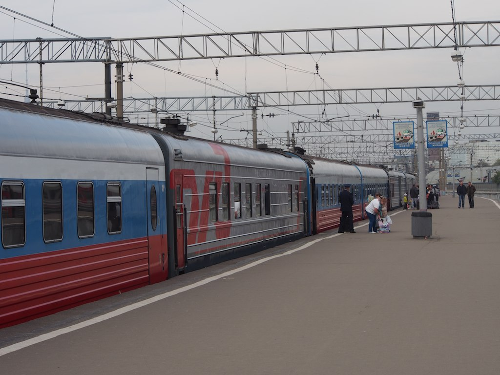 Moscow Yaroslavski station Train 2 The Rossiya